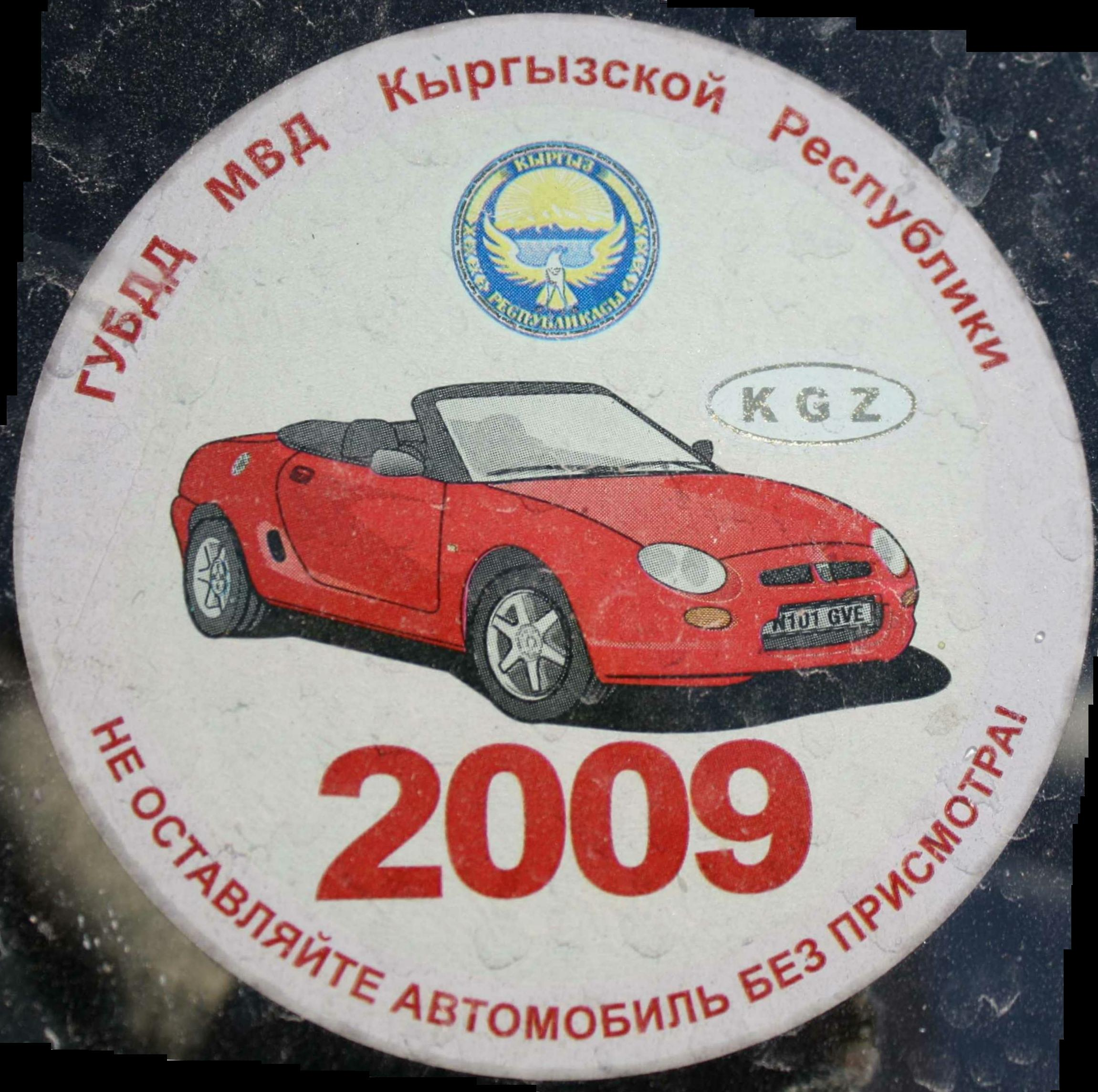 Kyrgyzstani decal for vehicle inspection